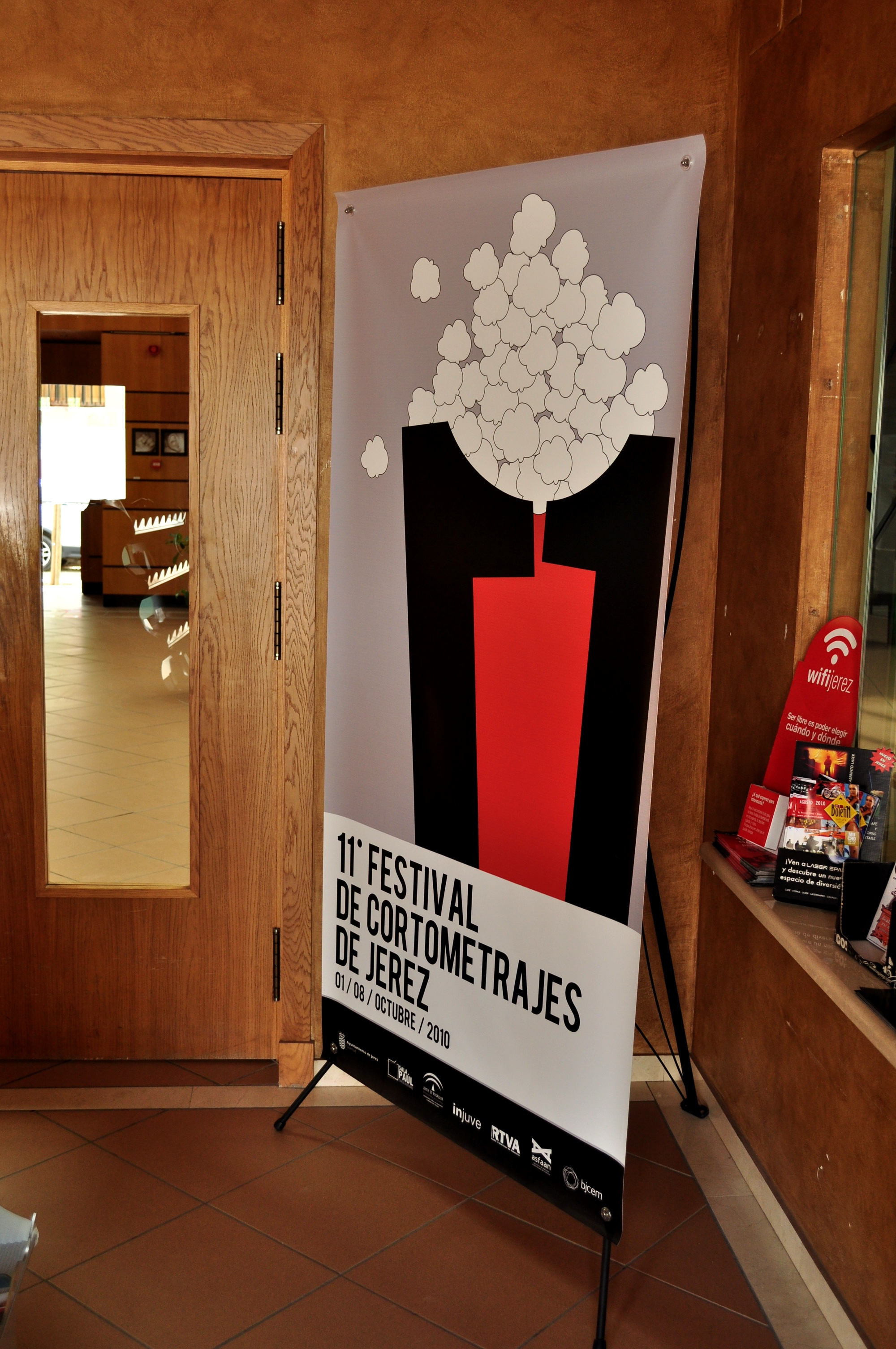 House of Youth, Hall, Jerez